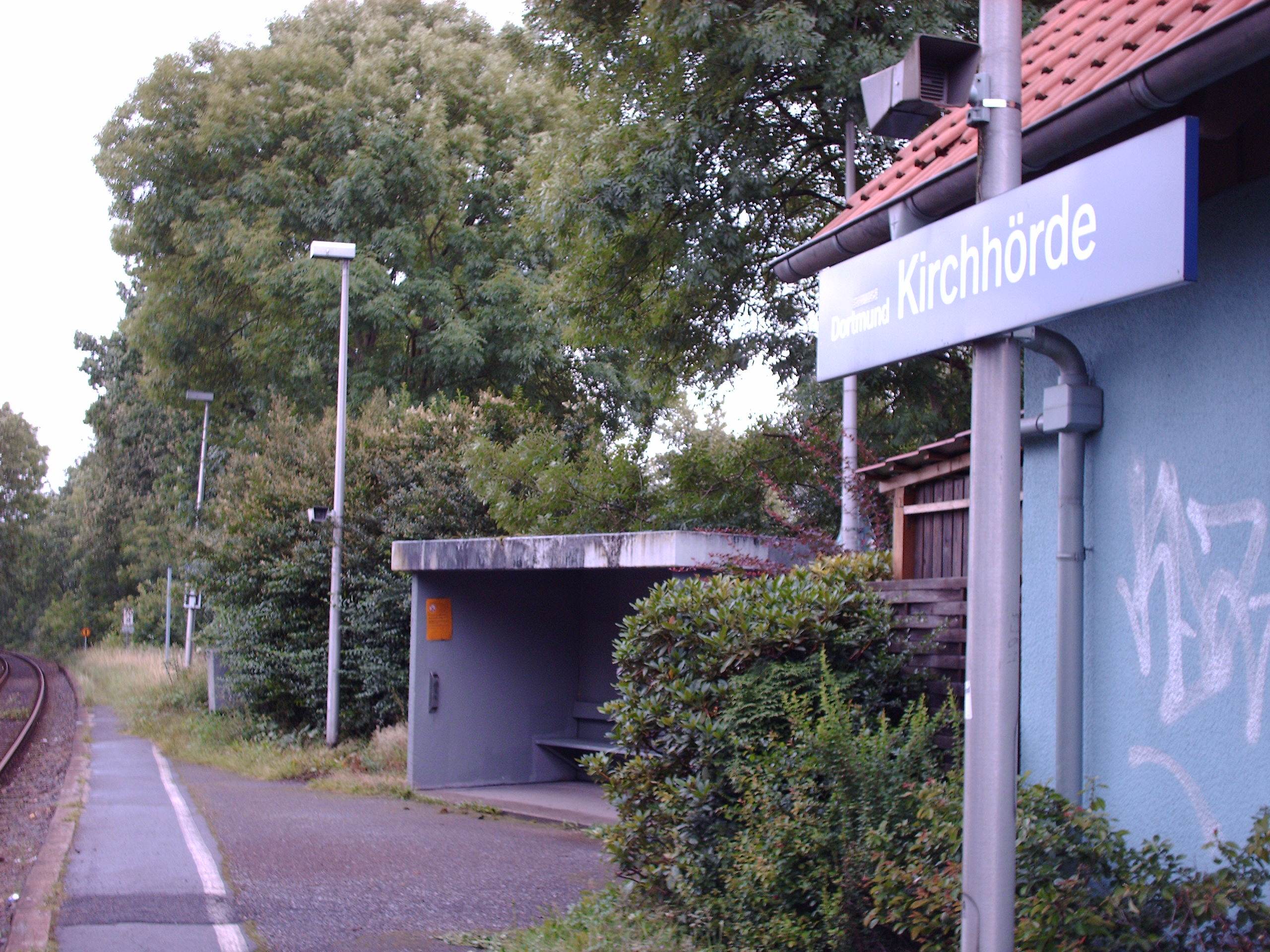 Kirchhörde station, Dortmund, Germany check usage